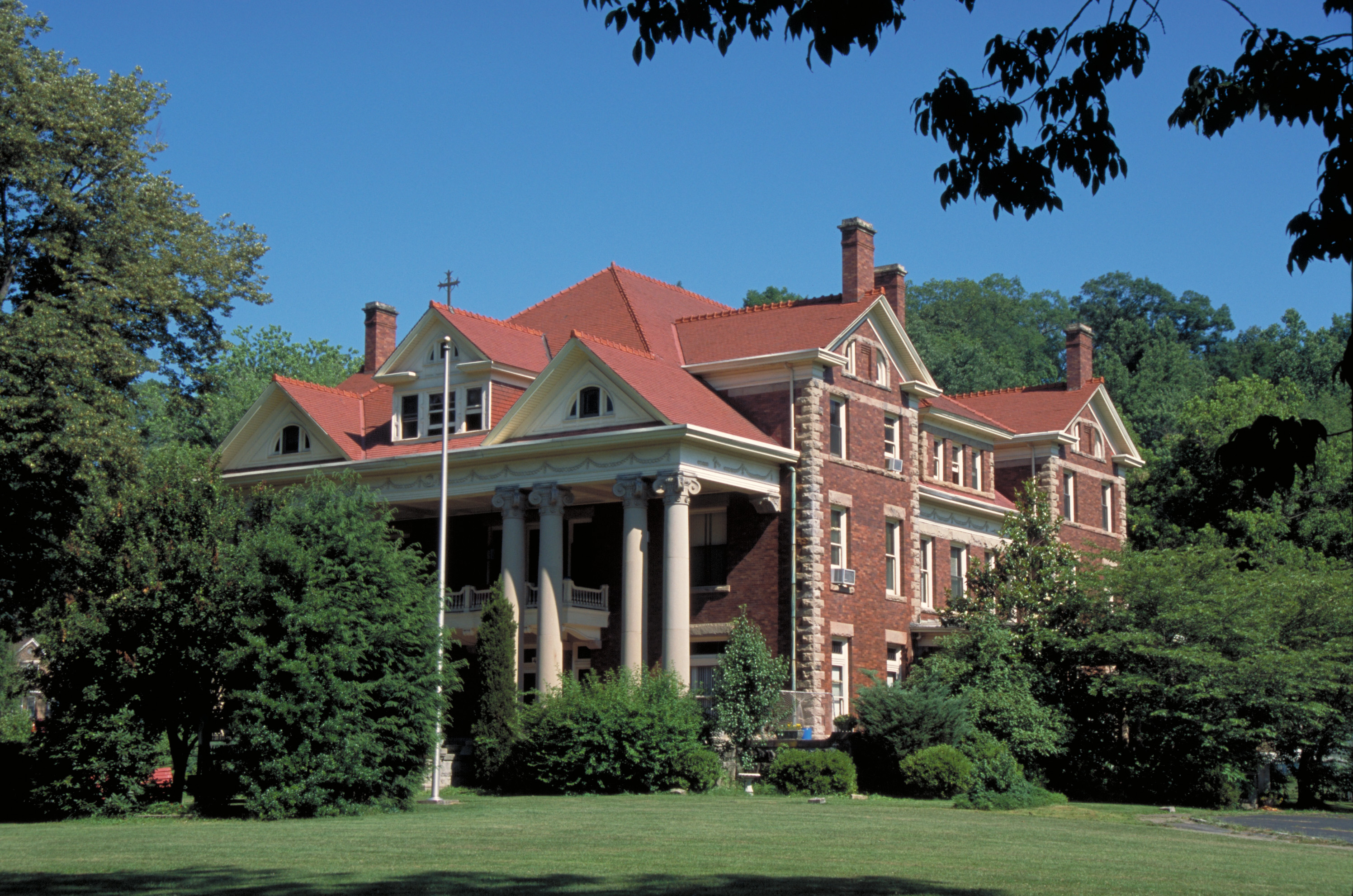 Mayo Mansion, located in Paintsville, Kentucky. Currently is the location for Our Lady of the Mountains Catholic school.